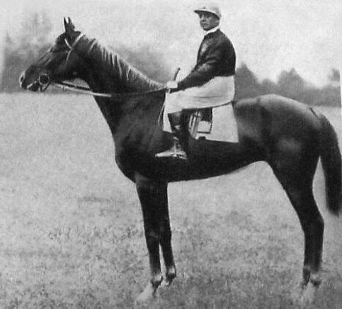 Ksar (horse)